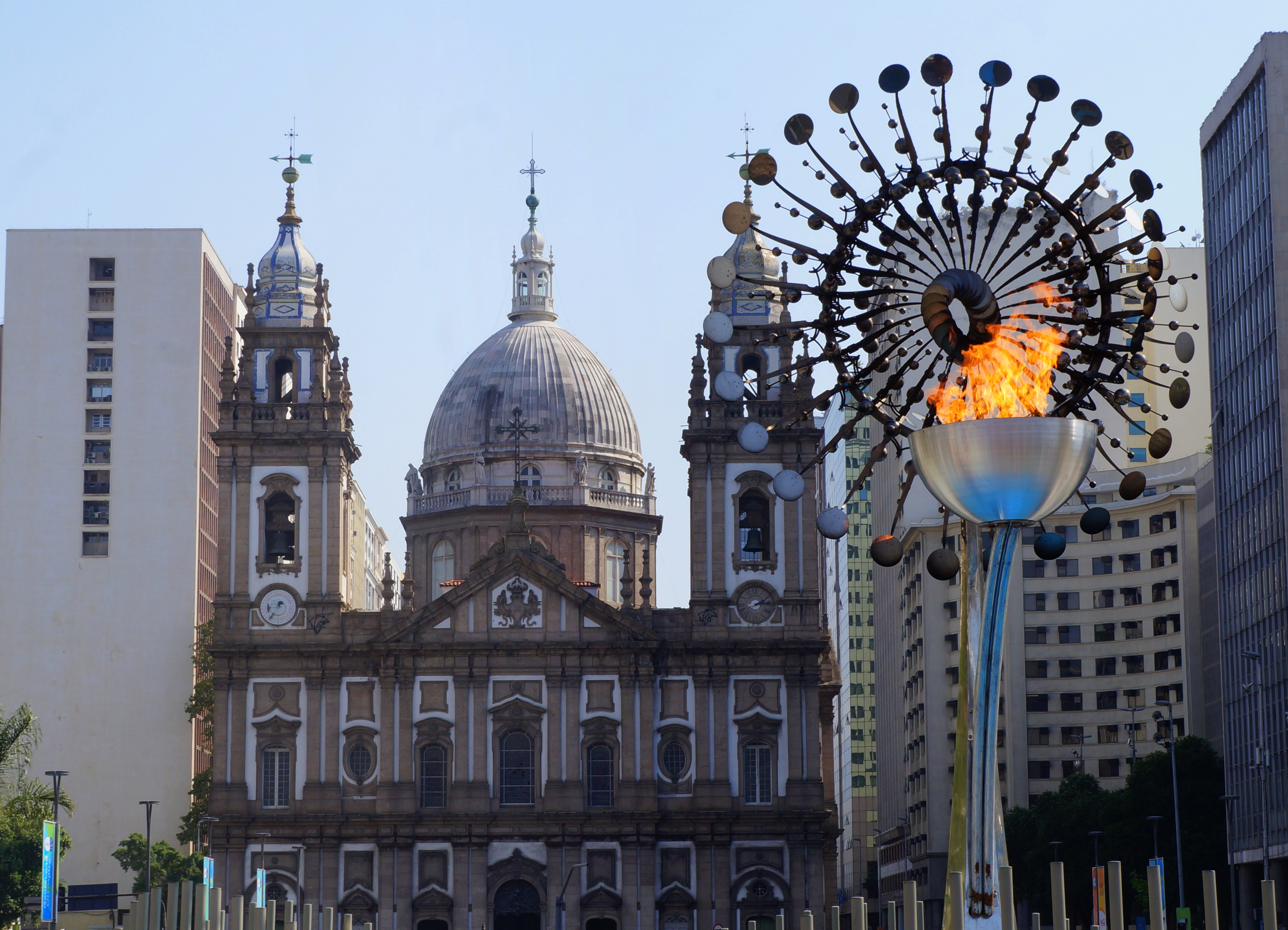 Olympic pyre at Rio downtown (Candelária church behind) / Pira olímpica Rio 2016.